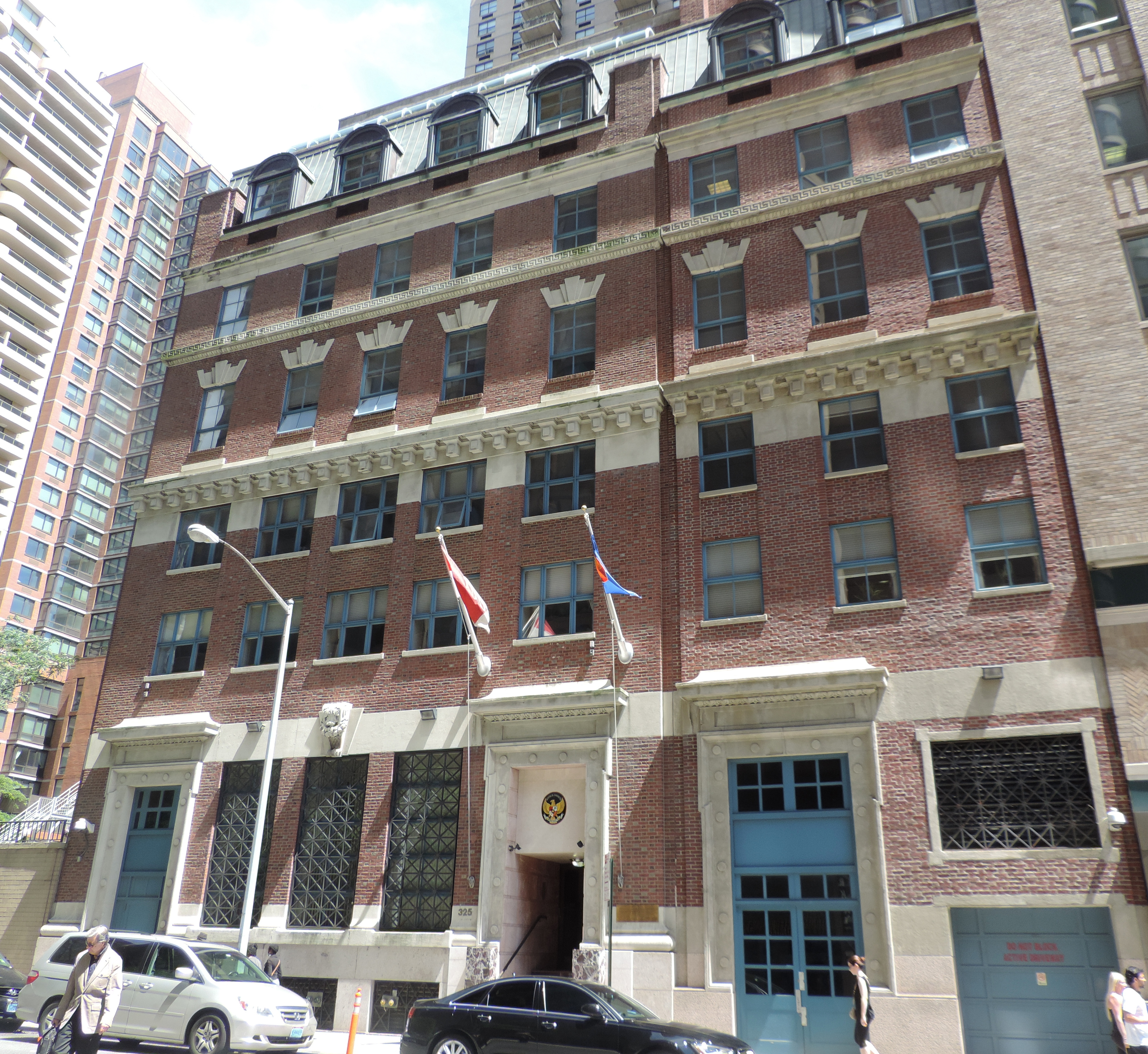 Looking north across 38th Street at Indonesian embassy on a sunny late morning.